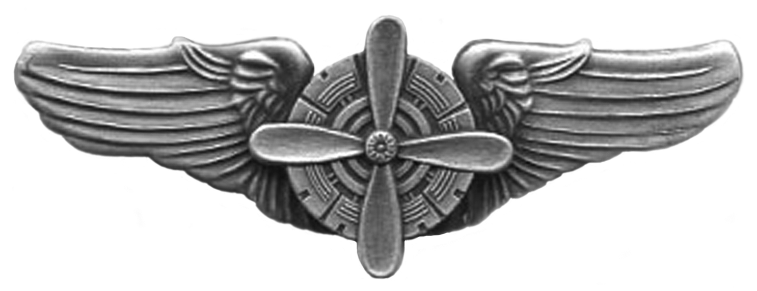 U.S. Army Air Corps/Air Force Flight Engineer badge Courtesy U.S. Air Force (U.S. Air Force website)